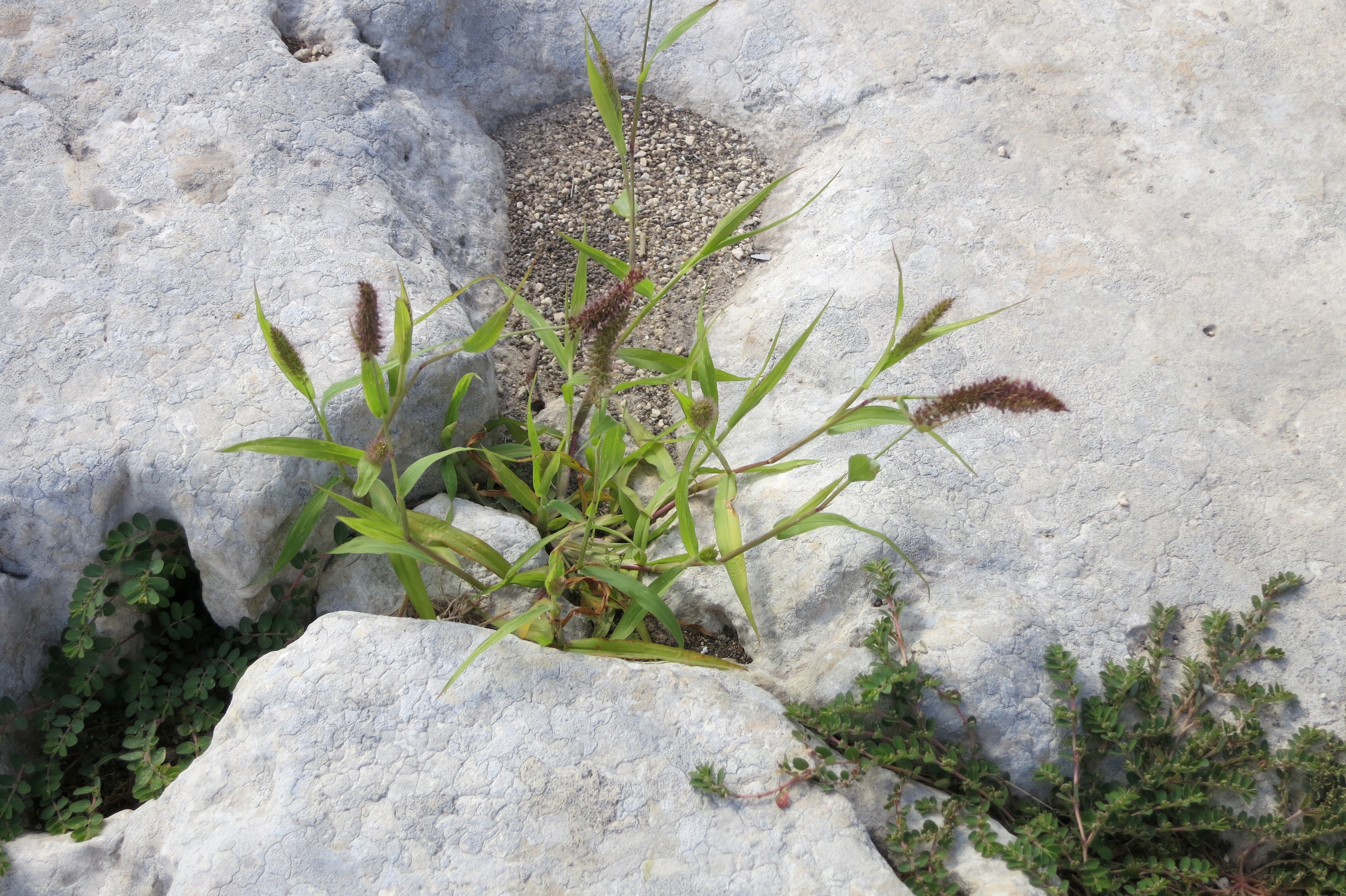 In the main archaeological area of Syracuse.